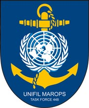 UNIFIL-Emblem (UNIFIL MAROPS TASK FORCE 448)